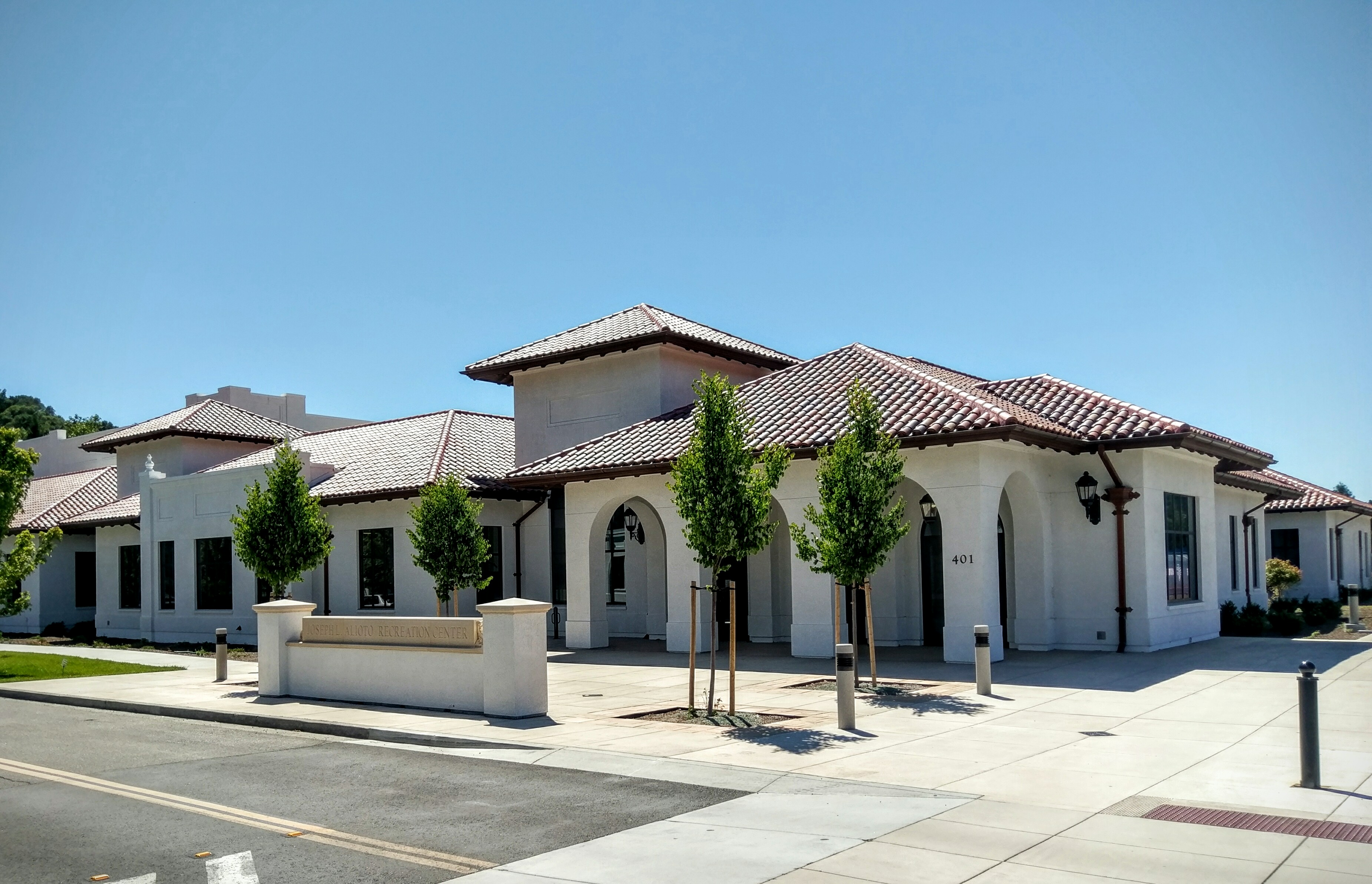 The Joseph L. Alioto Recreation Center at Saint Mary's College in Moraga, California. Photo by Jim Heaphy.